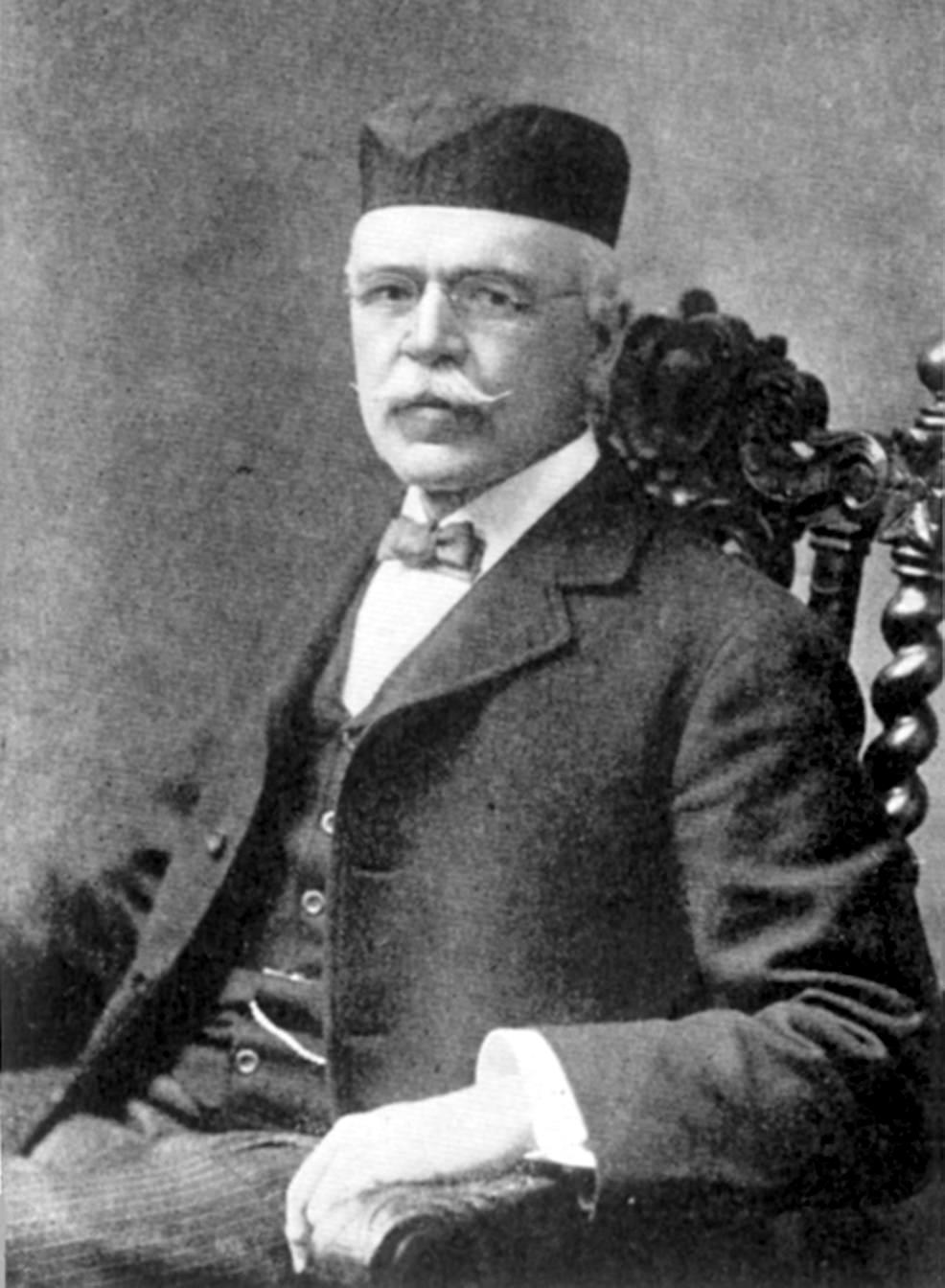 Henry Robinson Towne (1844-1924), Class of 1865, portrait photograph